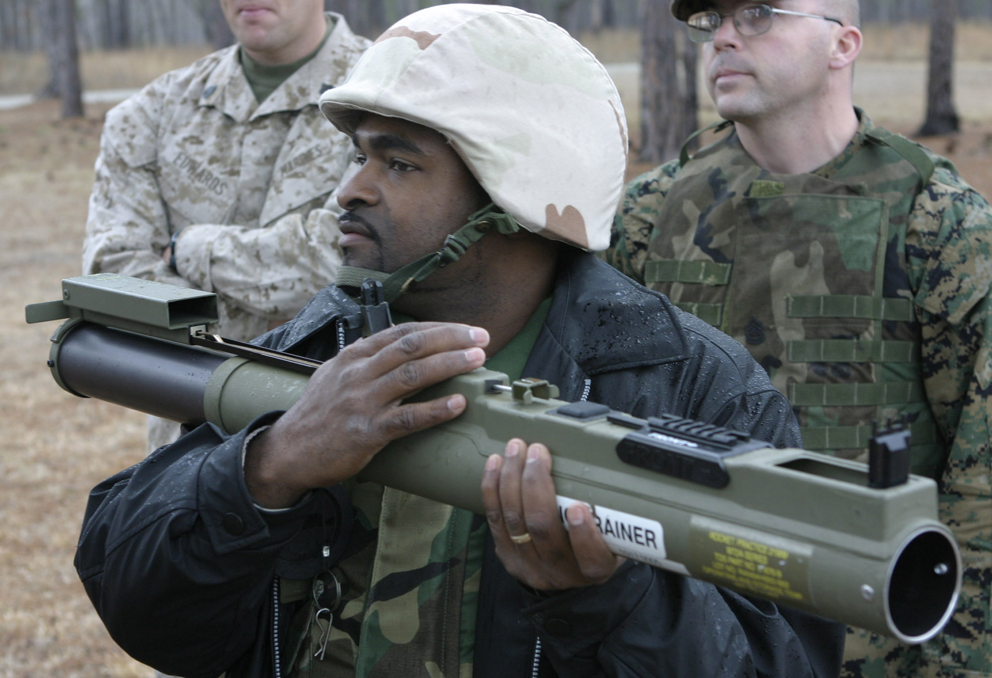 050203-M-2607O-003 MARINE CORPS BASE CAMP LEJEUNE, N.C. (February 3, 2005) -- An instructor from Talley Defense Systems instructs Marines from 2d Marine Division on how to safely operate the M72A7 Light Anti-armor Weapon for use in Iraq. The LAW is augmenting the AT-4 for use in the urban environment, because the AT-4 is too large for that terrain. (Official U.S. Marine Corps photo by Pfc. Christopher J. Ohmen)